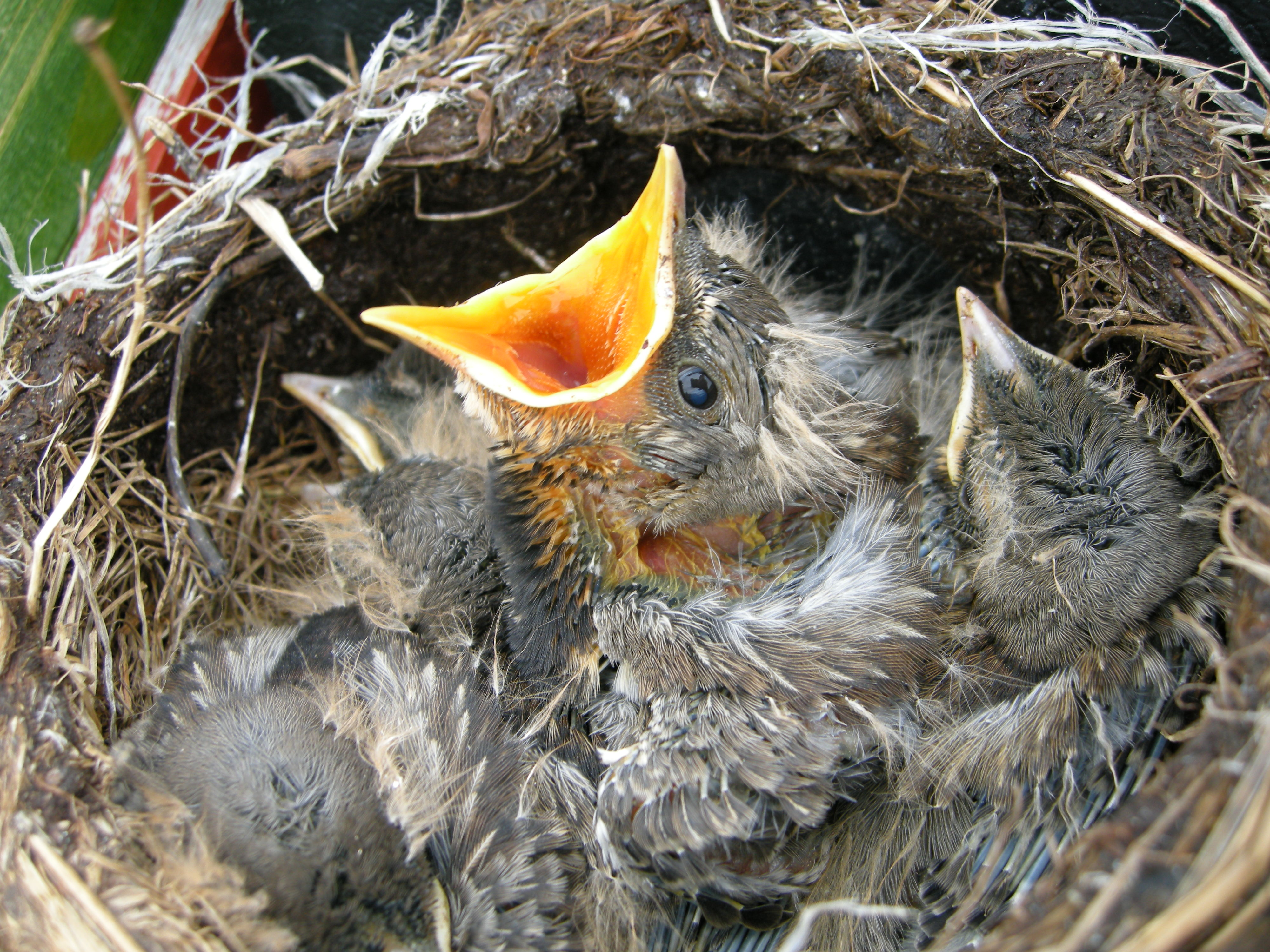 Fieldfare nestlings at Tufjorden in Finnmark Turdus pilaris, РАБІ́ННІК, дрозд-рабіннік, Рабіньнік, Хвойнов дрозд, Griva cerdana, Drozd kvíčala, Socan Eira, Sjagger, Wacholderdrossel, Hallrästas, Fieldfare, Zorzal real, Grive litorne, Fjildlyster, cesena, ბოლოშავა, Smilginis strazdas, Fenyőrigó, Kramsvogel, Schatliester, ノハラツグミ, Kwiczoł[edytuj], Sturz, Рябинник, Drozd čvíkotavý, Räkättirastas, Björktrast, Tarla ardıç kuşu, 田鸫